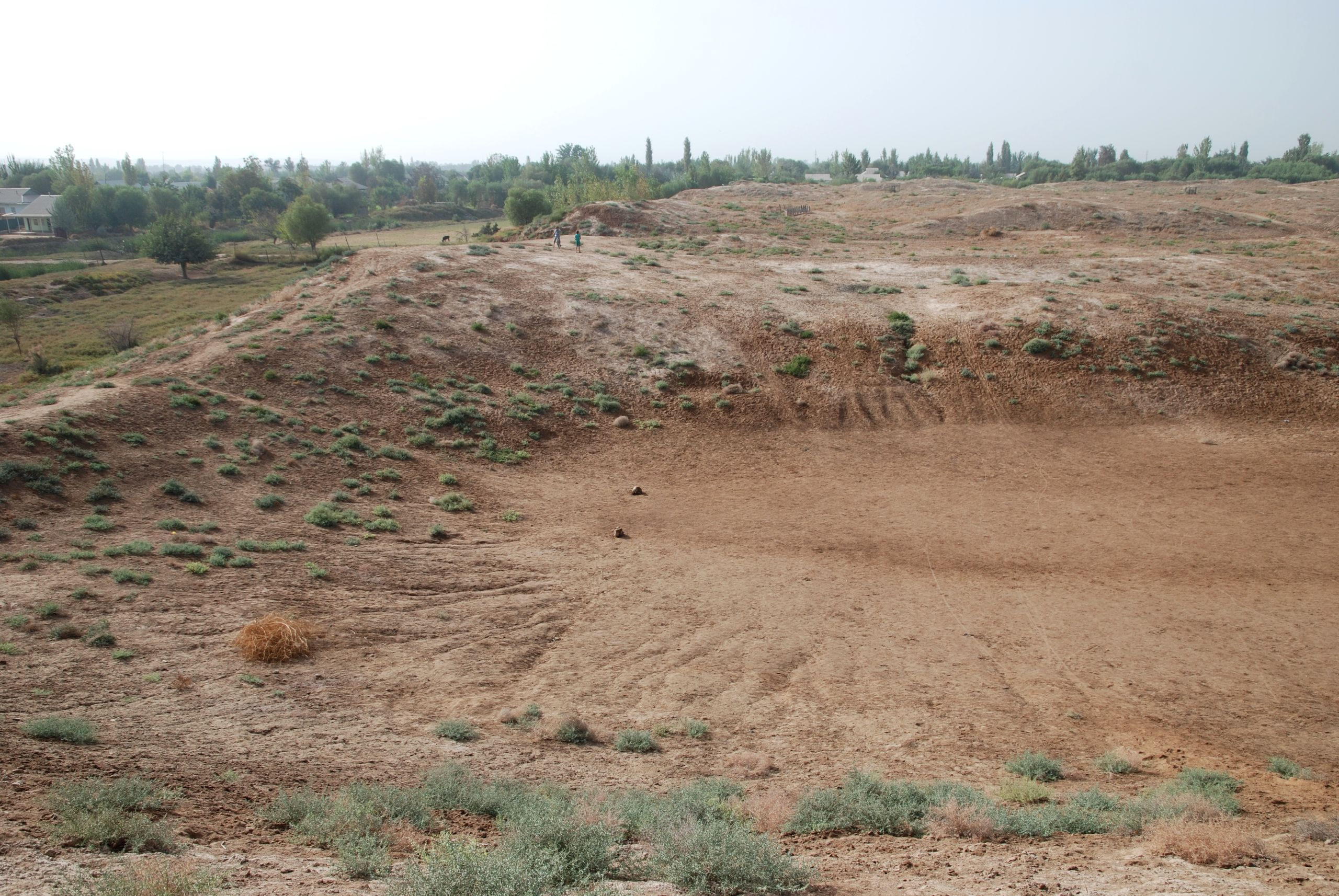 Kafyr Kala, City, Kolkhozobod